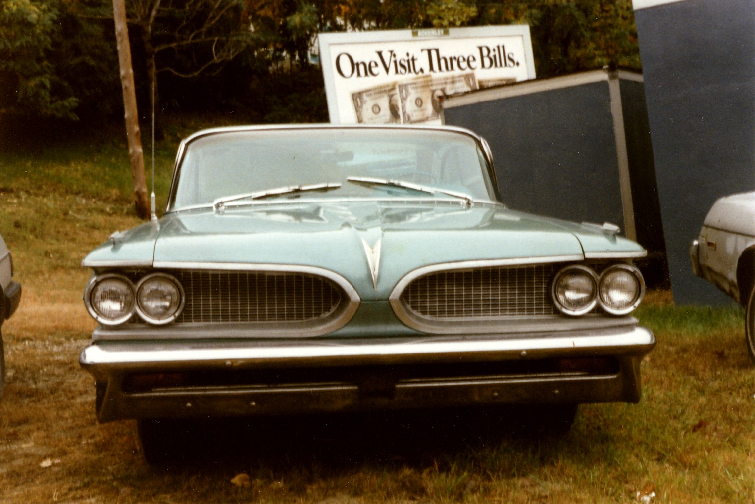 1959 Pontiac Parisienne (made by GM Canada). The top-of-the-line Parisienne was available only in Canada from 1958 to 1982. Under strong pressure from US Pontiac dealerships who wanted a full-size luxury model to offer their traditional client base, GM relented and introduced the Canadian-made Parisienne to the US market for the 1983 model year. It bumped down the downsized Bonneville as Pontiac's flagship model and was a resounding sales success. Early Parisiennes are a sought-after item among classic GM collectors in the US. Pontiac Parisienne von 1959 place/Ort: Leominster, Massachusetts, USA